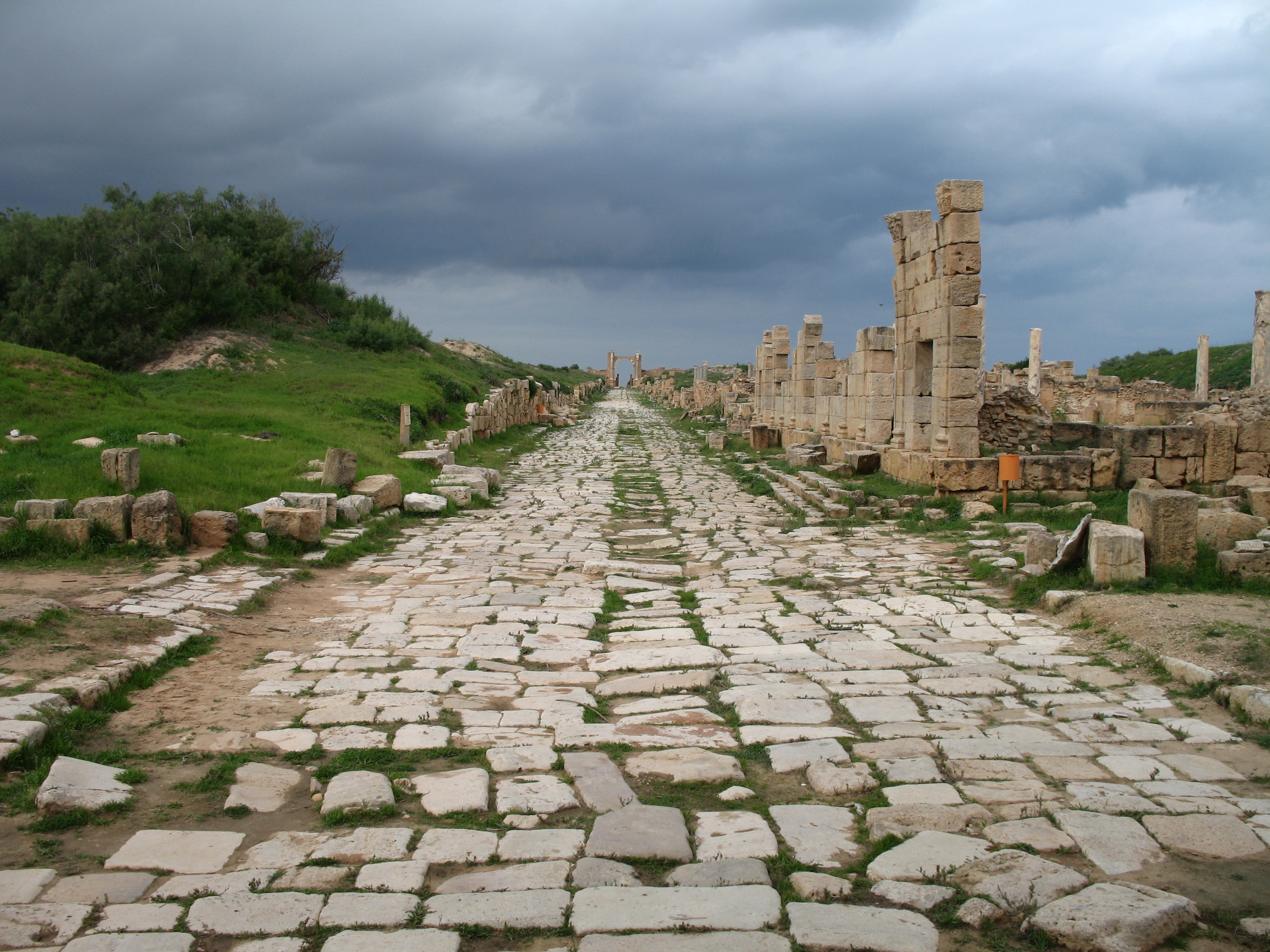 Libya, Leptis Magna